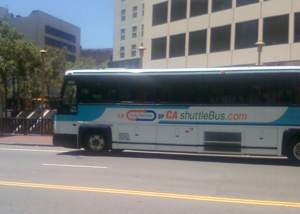 California Shuttle Bus at Powell Street station in July 2011